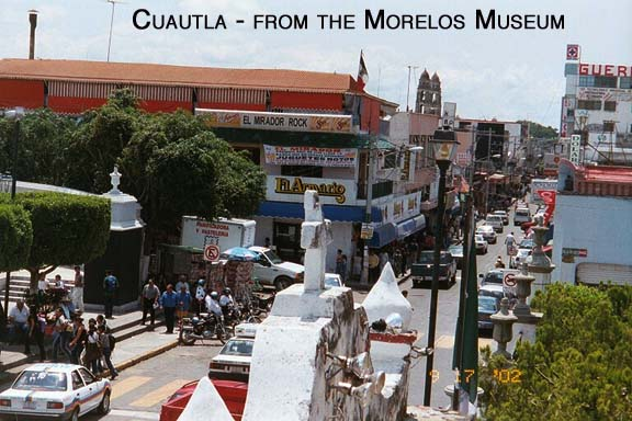 I took this picture Sept 2002. It's not copyrighted